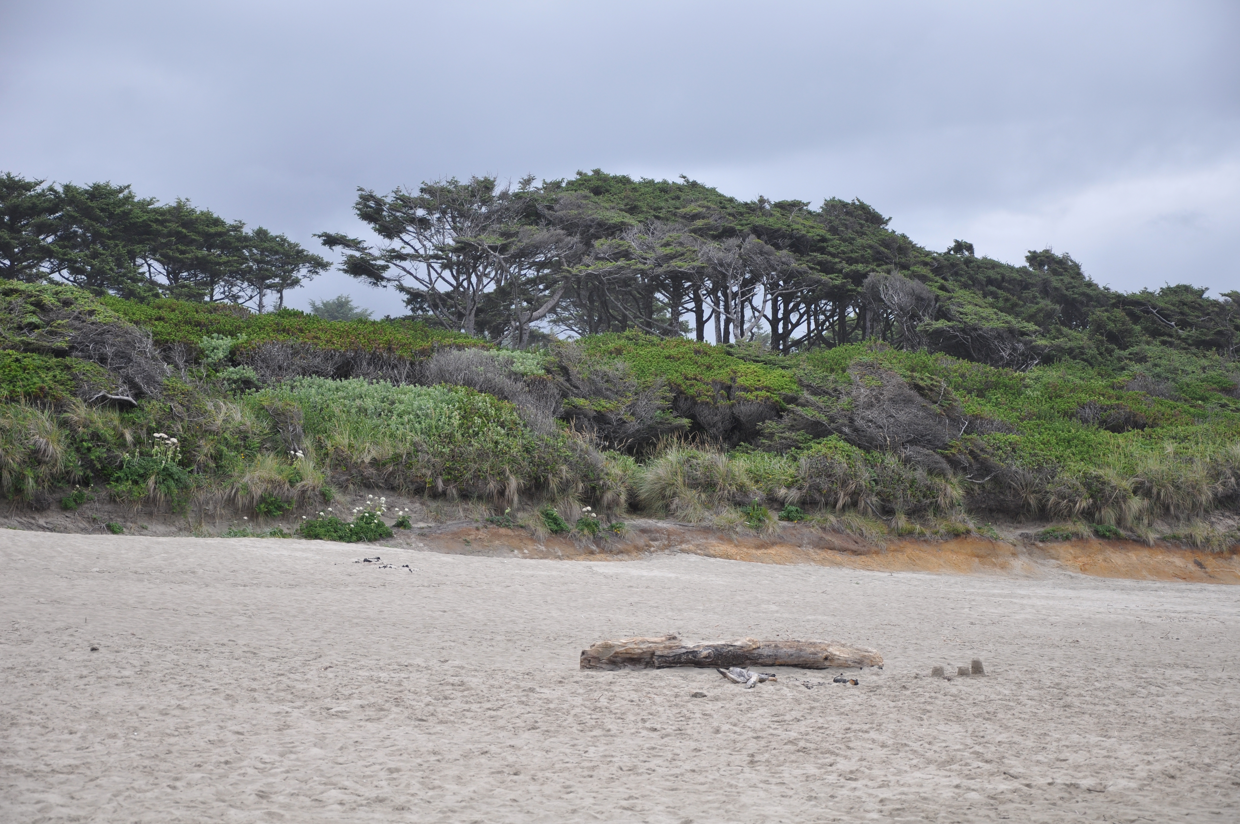 Beachside State Recreation Site, between Waldport and Yachats in the U.S. state of Oregon.